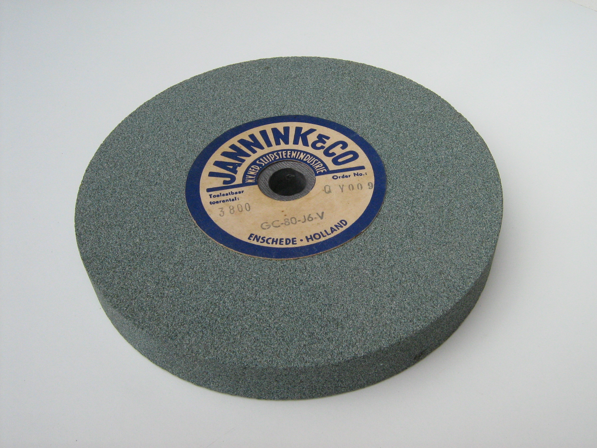 Grinding wheel.